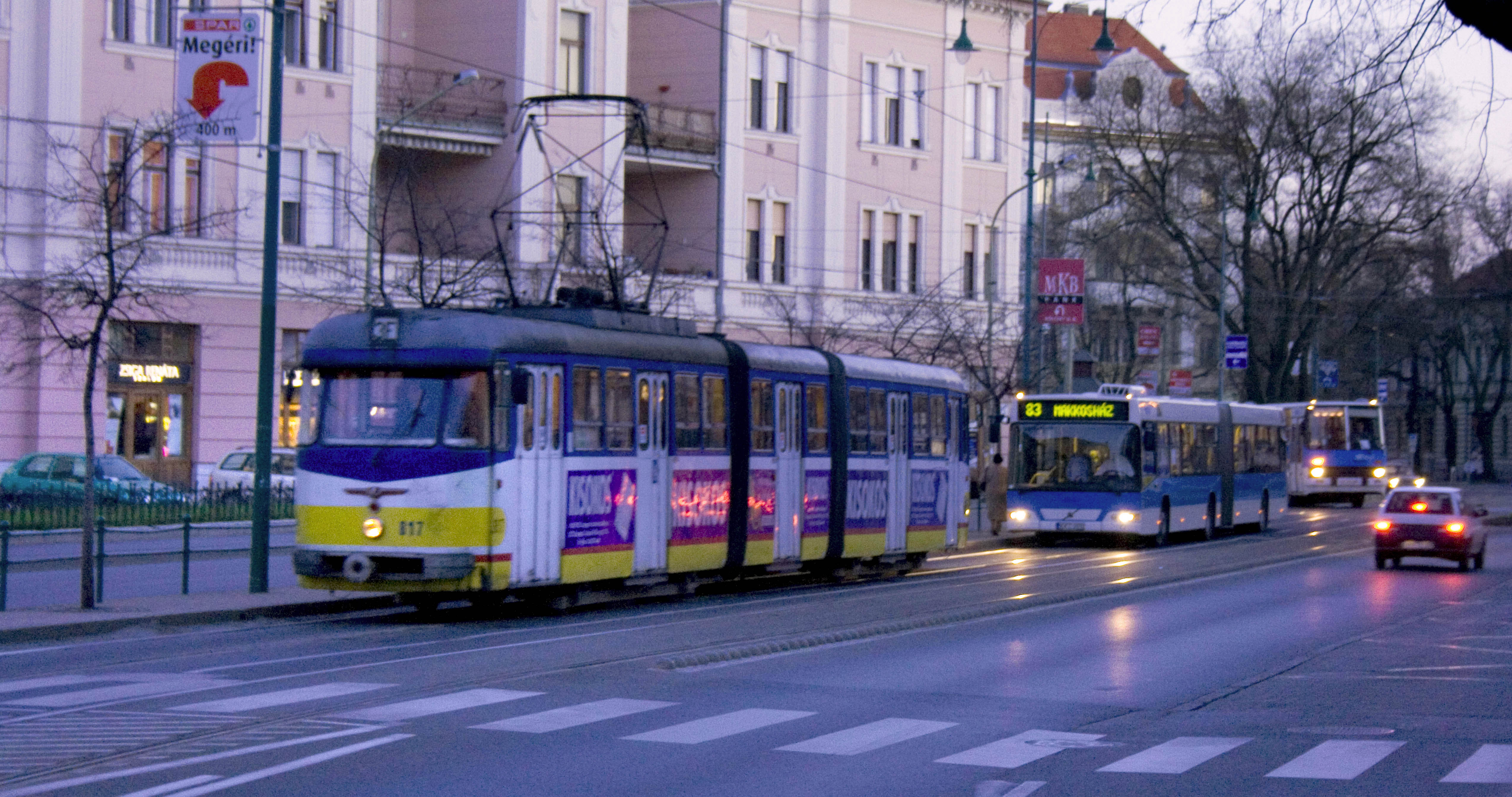 Hungary, Csongrad County, Szeged City Traffic, 2008. Spring evening